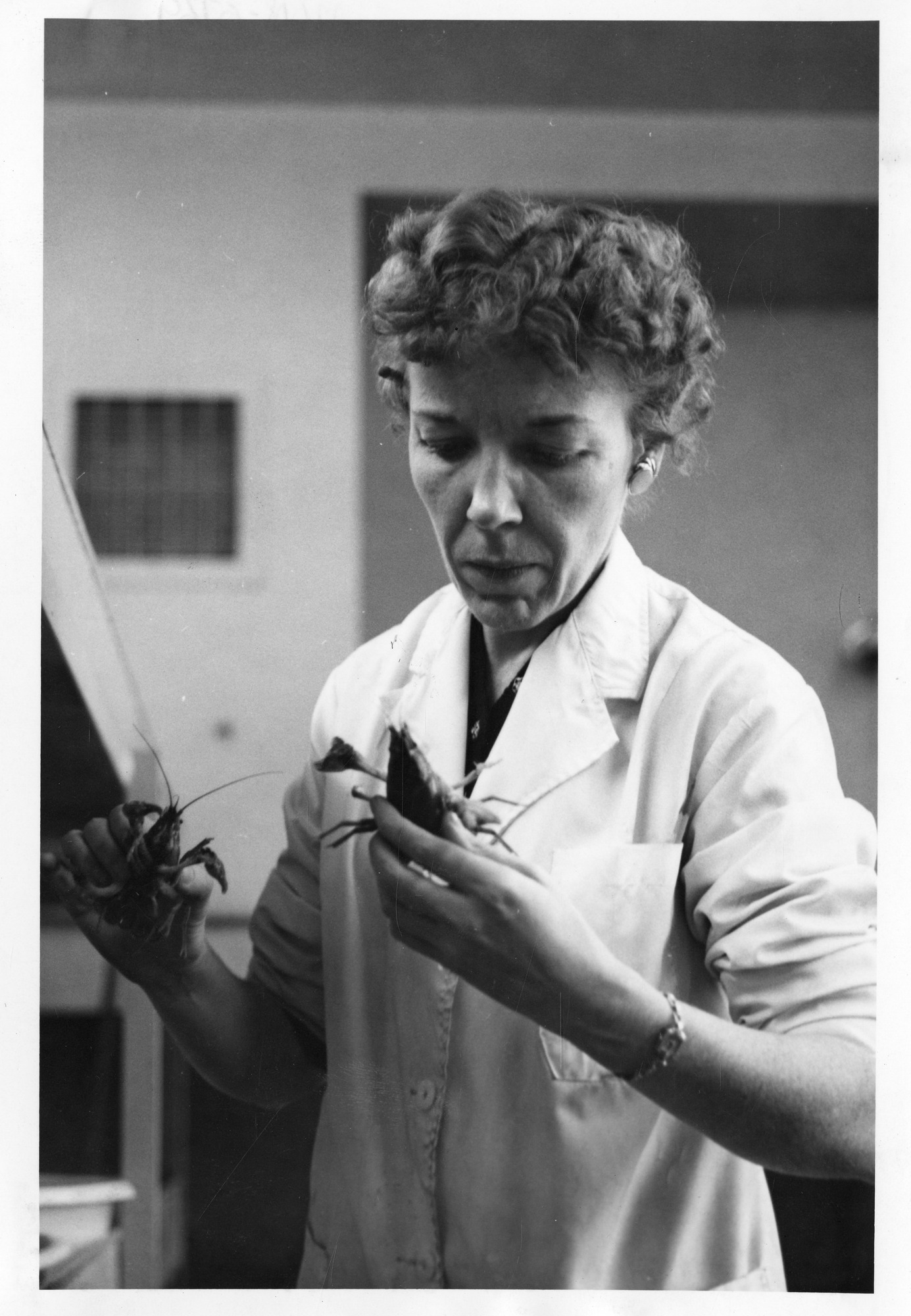 Subject: McWhinnie, Mary A DePaul University Type: Black-and-White Prints Date: 1962 Topic: Scientific expeditions Biology Local number: SIA Acc. 90-105 [SIA-SIA2008-5739] Summary: Mary Alice McWhinnie (1922-1980) was a professor of biology at DePaul University and a world-renowned authority on krill when she began working on research ships off-shore in 1962, when this photograph was taken. The National Science Foundation eventually allowed her to winter over at McMurdo Station and in 1974, she became the first American woman to serve as chief scientist at an Antarctic research station. Cite as: Acc. 90-105 - Science Service, Records, 1920s-1970s, Smithsonian Institution Archives Place: Antarctica Persistent URL:Link to data base record Repository:Smithsonian Institution Archives View more collections from the Smithsonian Institution.